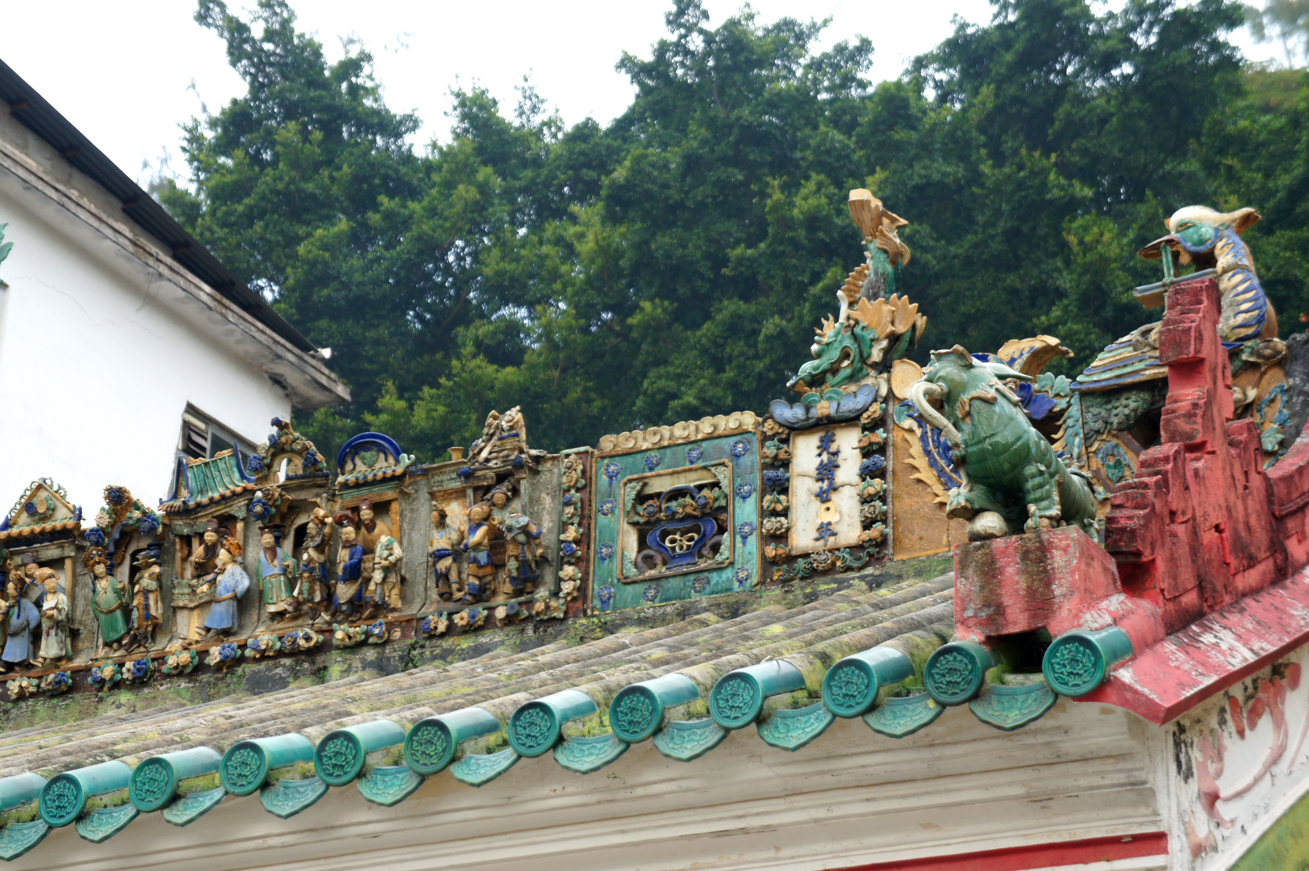 Detail on the ridge of the Kwan Tai Temple, Tai O, Lantau Island, Hong Kong.